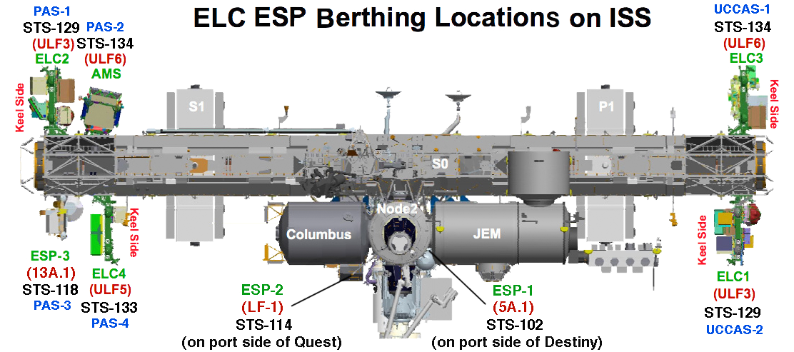 The International Space Station will contain several unpressurized platforms that include ELC1 – 4 (ExPRESS Logistics Carrier) and ESP1 – 3 (External Storage Platform). AMS (Alpha Magnetic Spectrometer) is an instrument. ULF (Utilization and Logistics Flight), 5A.1 (American funded) and LF-1 (Logistics Flight) are ISS flights. 5A.1 STS-102 Discovery March 2001 ESP-1 LF-1 STS-114 Discovery July 2005 ESP-2 13A.1 STS-118 Endeavour August 2007 ESP-3 ULF3 STS-129 Atlantis November 2009 ELC1 & 2 ULF5 STS-133 Discovery Februar/March 2011 ELC4 ULF6 STS-134 Endeavour May 2011 ELC3 and AMS